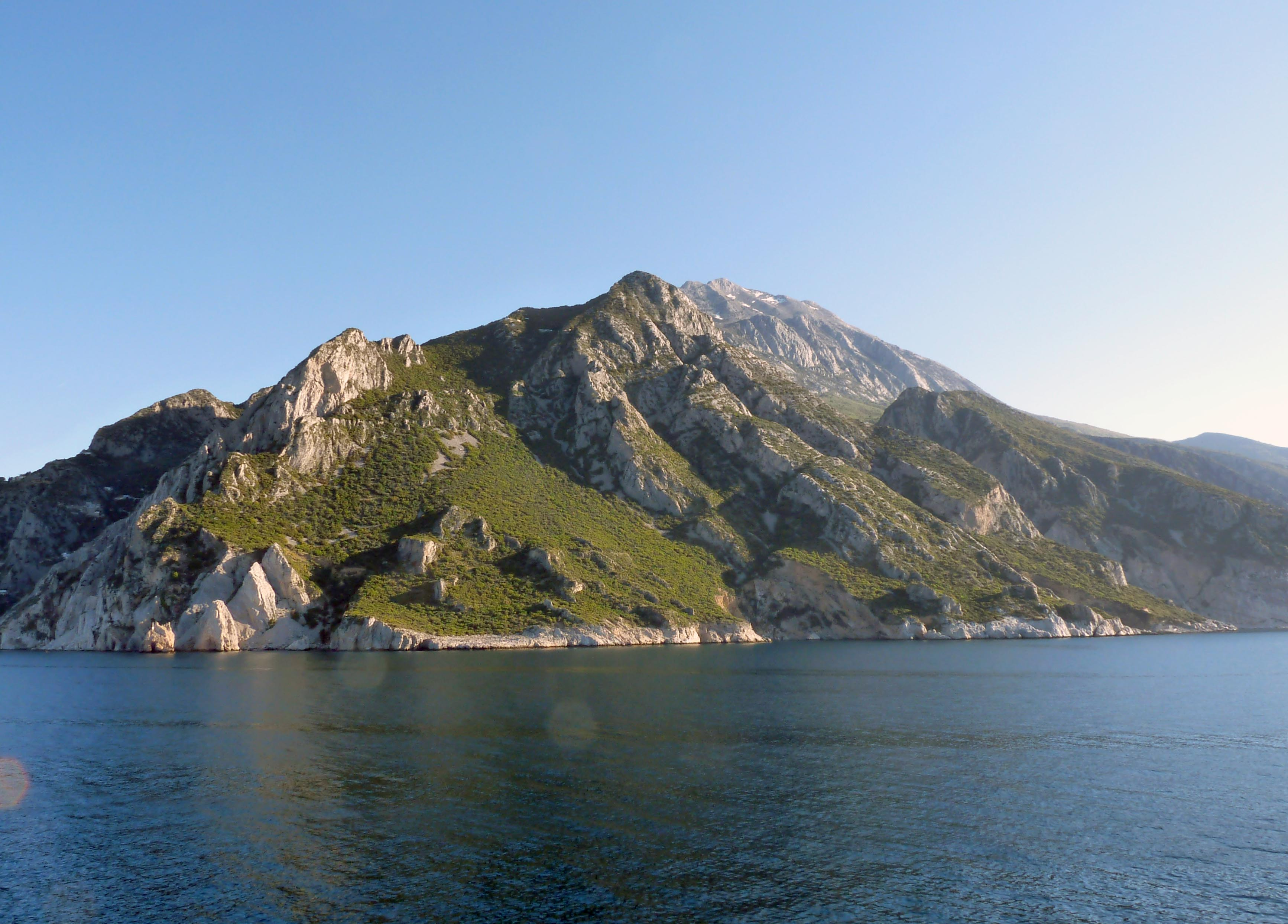 Mount Athos